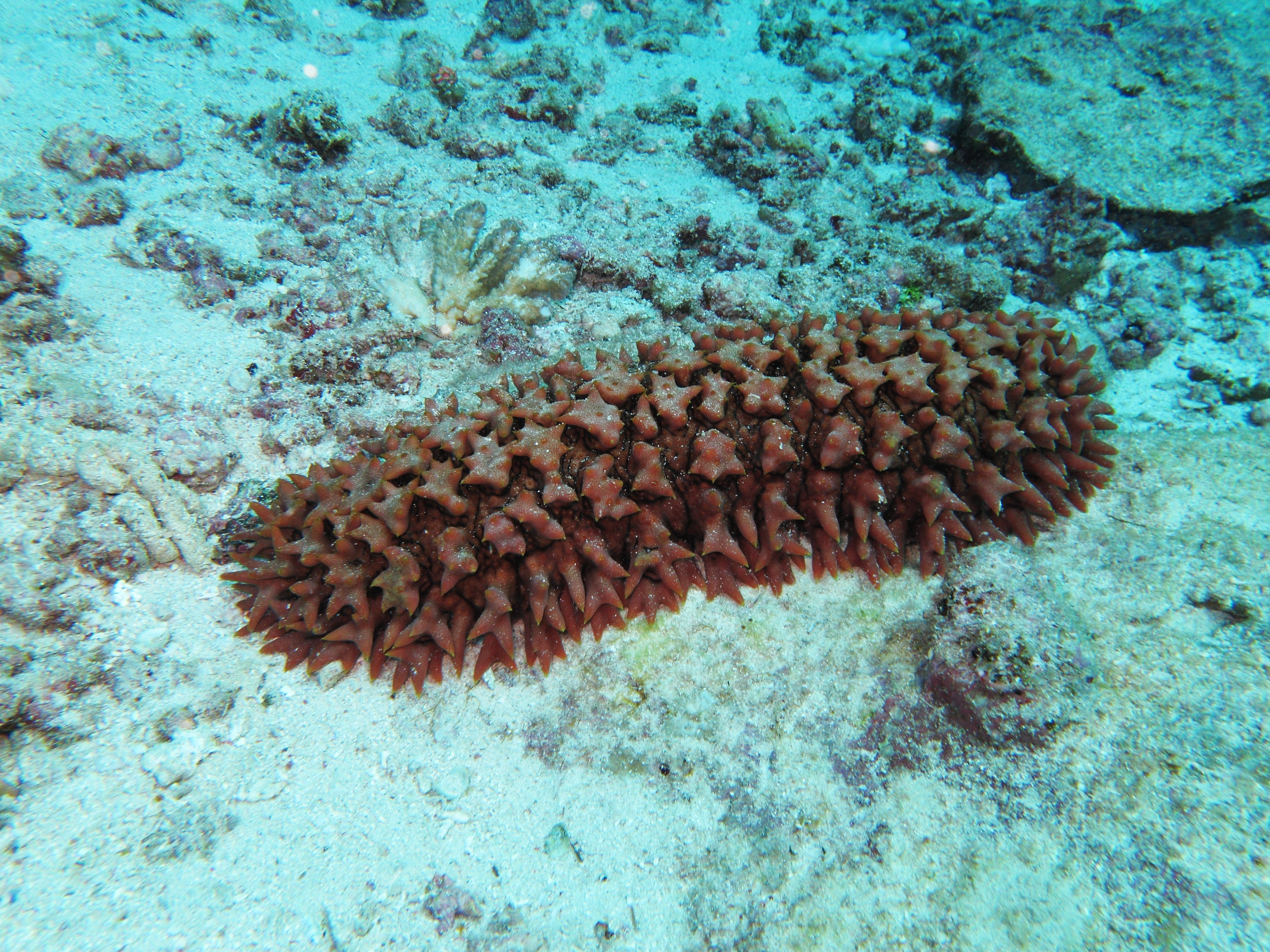 Thelenota ananas sea cucumber at Umm Kararim reef (Red Sea, Egypt)